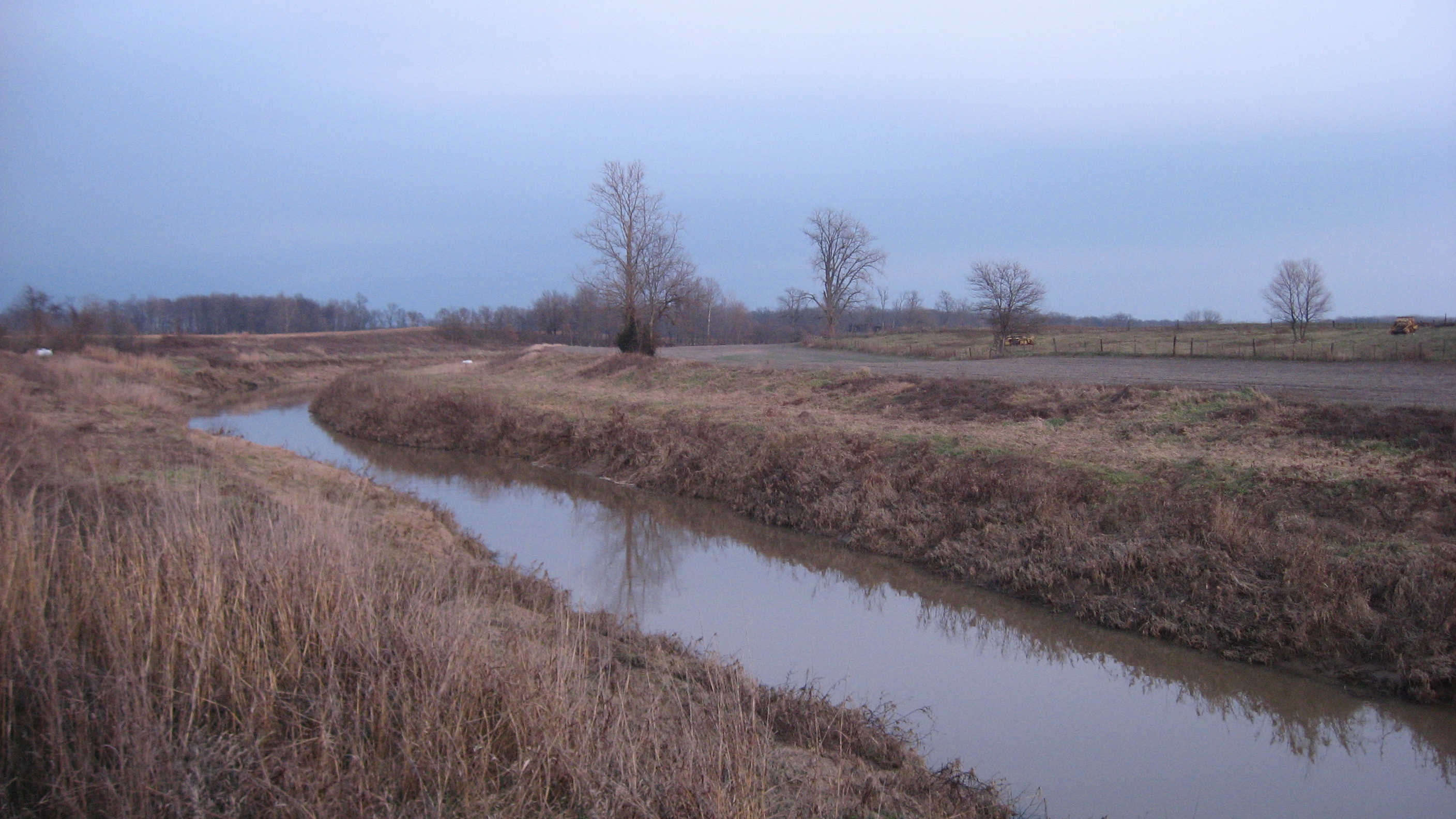 Looking eastward (upstream) from the State Road 57 bridge over Prairie Creek north of Washington in far northern Washington Township, Daviess County, Indiana, United States. This location is an archaeological site known as the Prairie Creek Site; it is listed on the National Register of Historic Places.